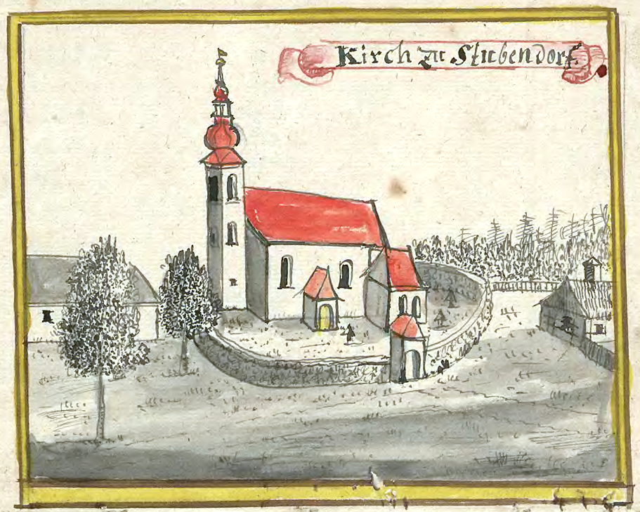 curch in Stubendorf (today Izbicko).